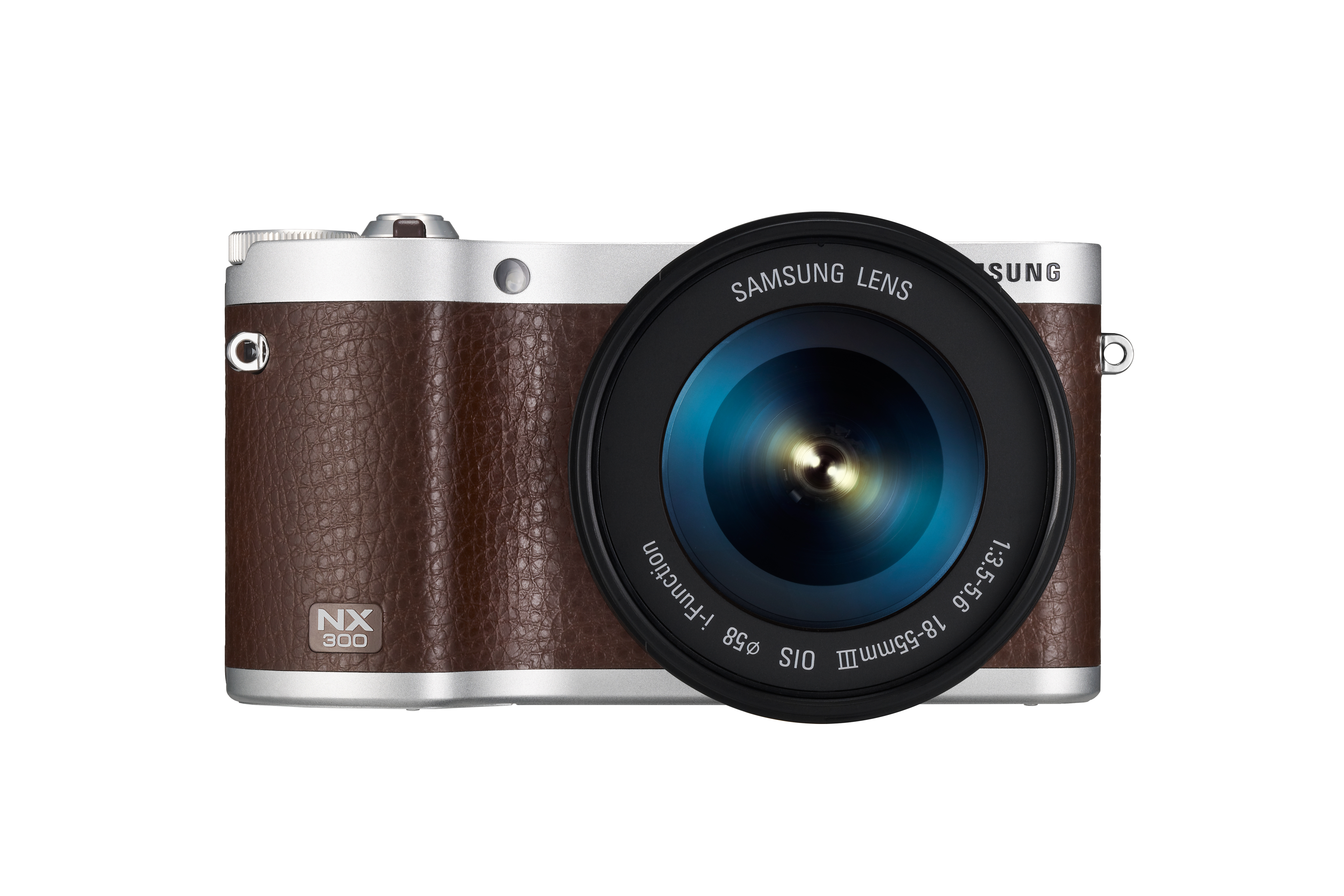 Model of smart camera